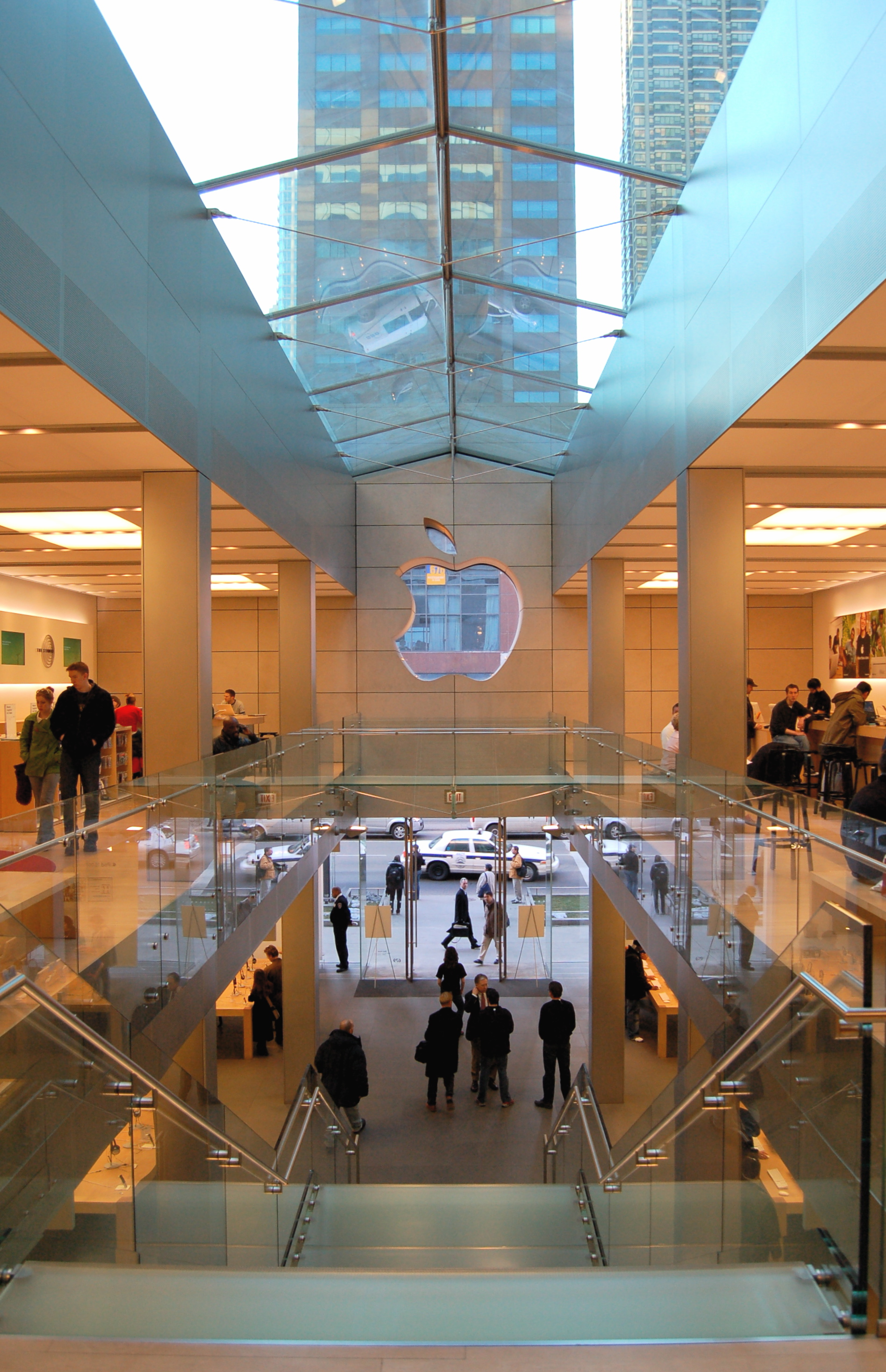 An Apple Store in Chicago.